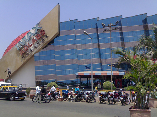 Author: Zahid Contractor Description: The world's largest IMAX dome theater, located in Wadala, Mumbai.